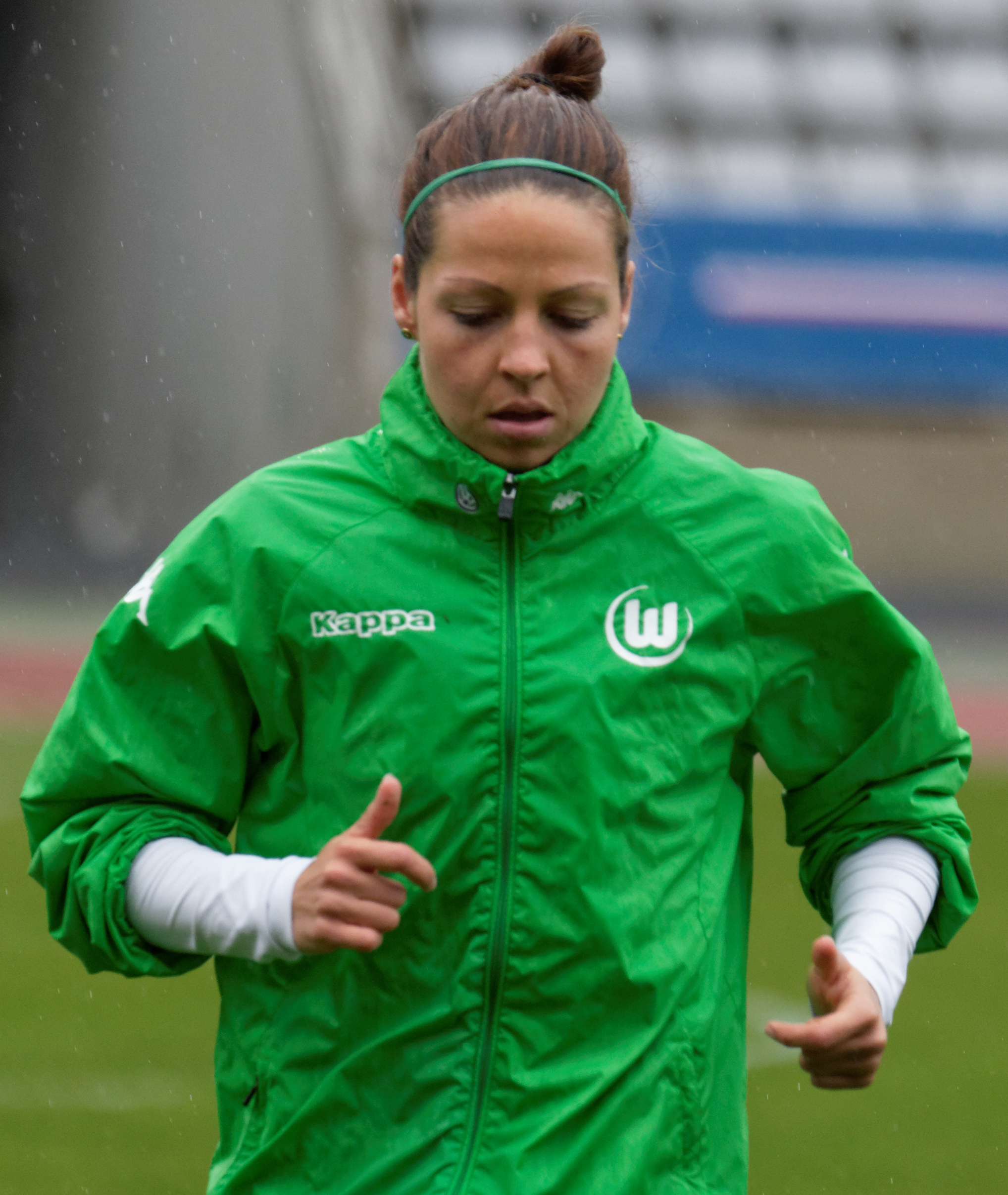 UEFA Women's Champions League, PSG - Wolfsburg, 26 April 2015.